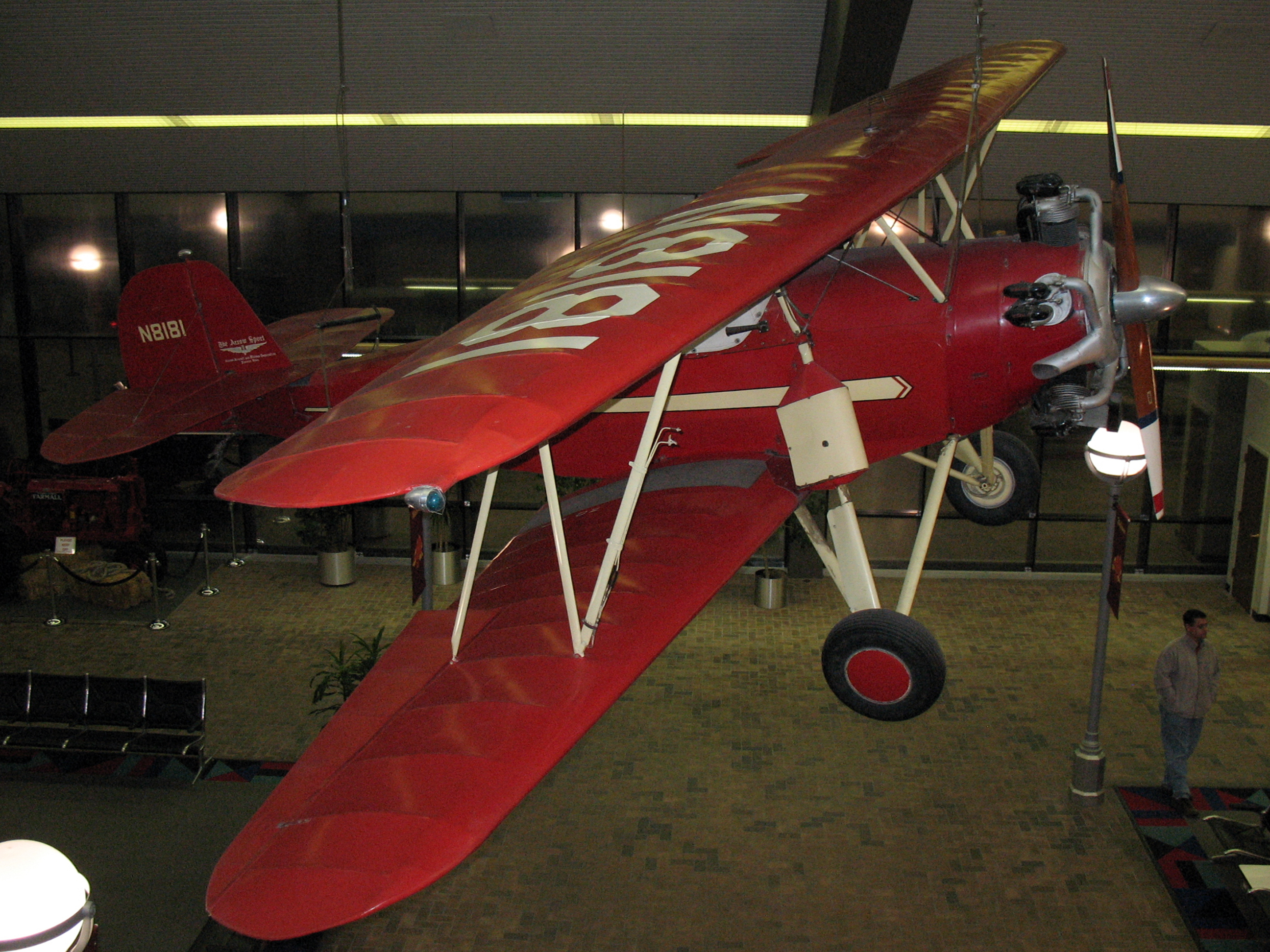 Photo of an Arrow Sport; as seen hanging in the Lincoln Airport passenger terminal (south section), 2400 W. Adams Street in Lincoln, Nebraska. Photo taken from the second floor gates 3 & 4 walkway in the terminal.